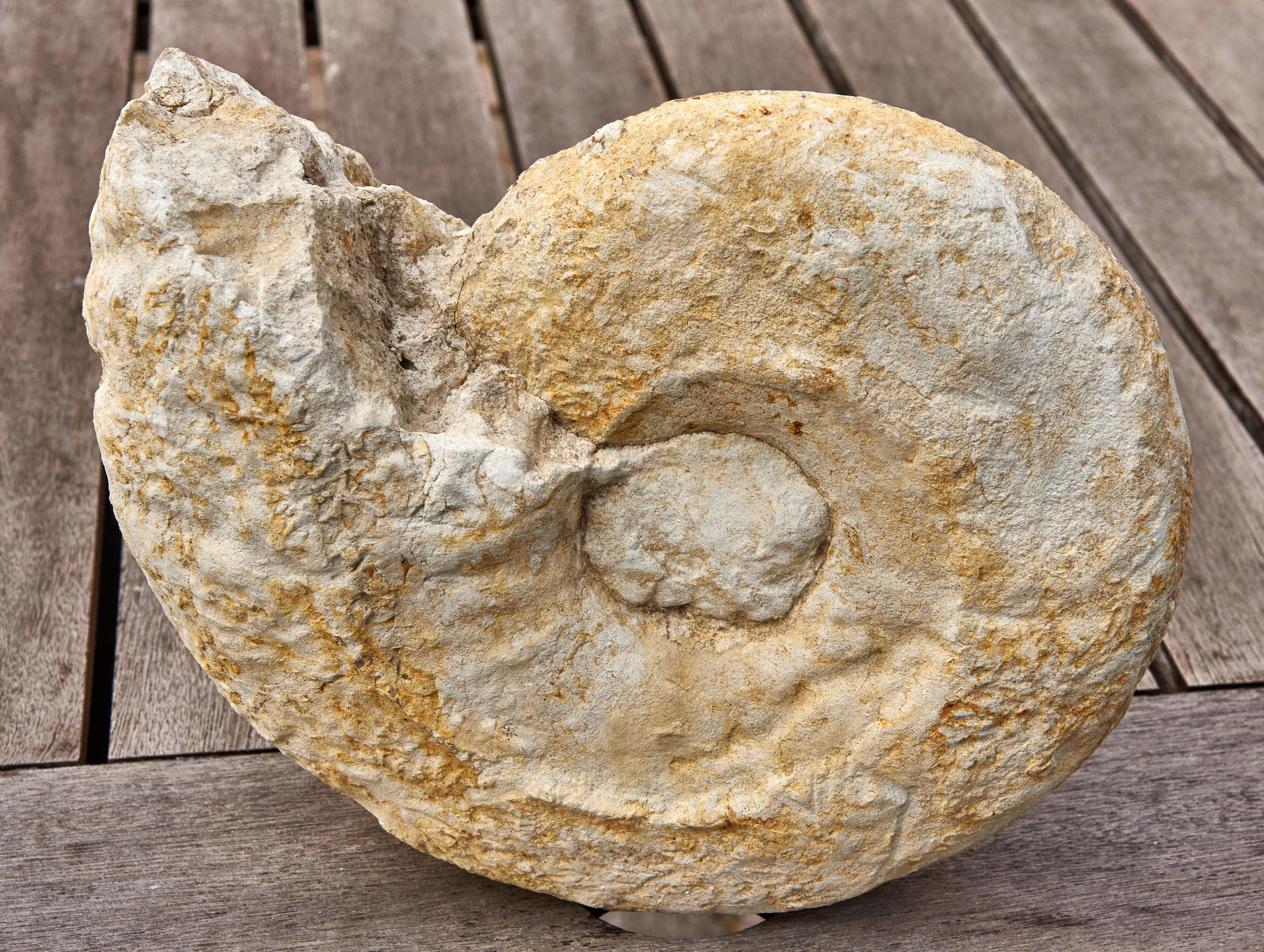 Pachydiscus ammonite from Campanian found nearby Coesfeld, North Rhine-Westphalia, Germany. Diameter 23 cm, weight 4,04 kg.